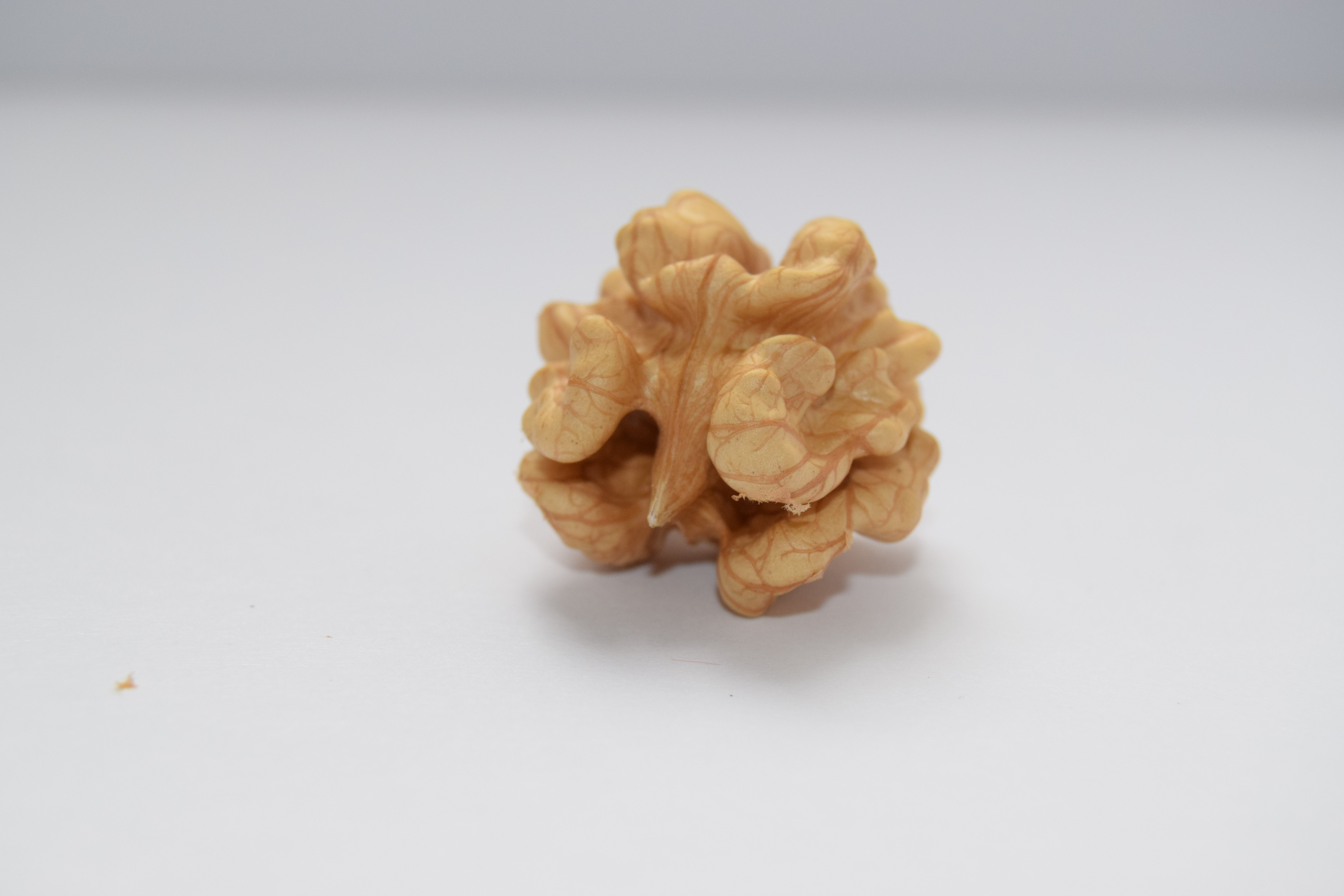 A walnut out of the shell